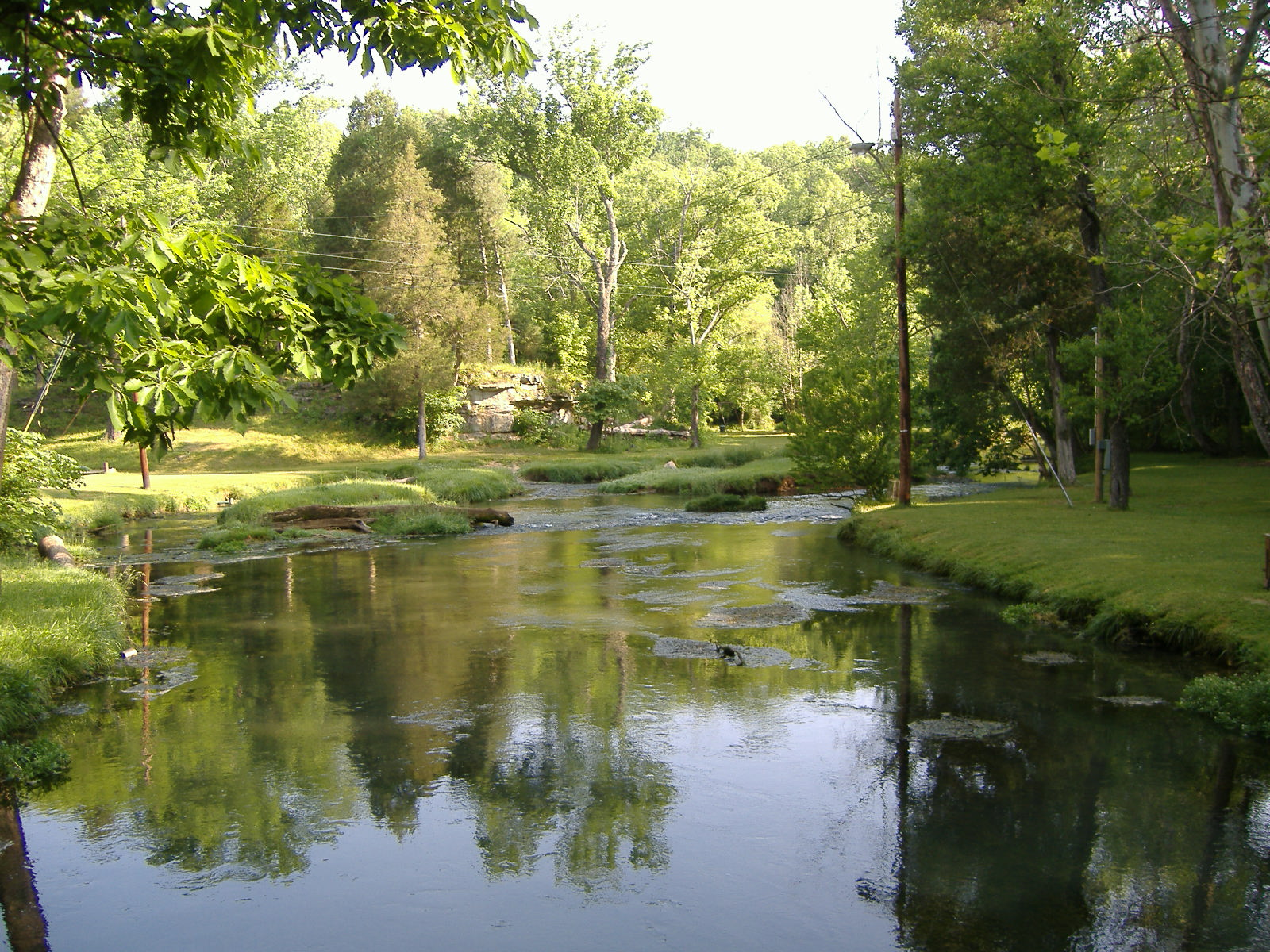 Creek at Doe Run Inn in Brandenburg, Kentucky.